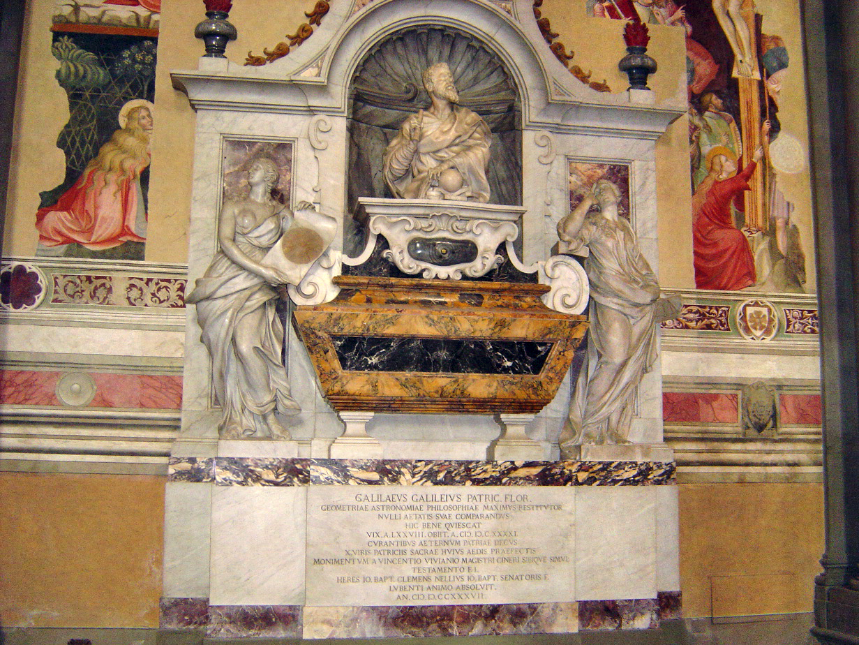 Description: Tomb of Galileo Galilei (Location: Santa Croce, Florence, Italy.)